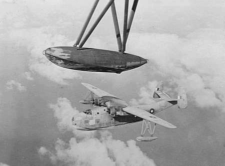 A Martin PBM Mariner flying boat of No. 41 Squadron RAAF seen from another aircraft at 2.700 metres while flying from Cairns, Australia, to Port Moresby, New Guinea. The type, used as long-range patrol bombers by the United States Navy, was flown and maintained by members of of No. 41 (Transport Sea) Squadron RAAF based at Cairns.